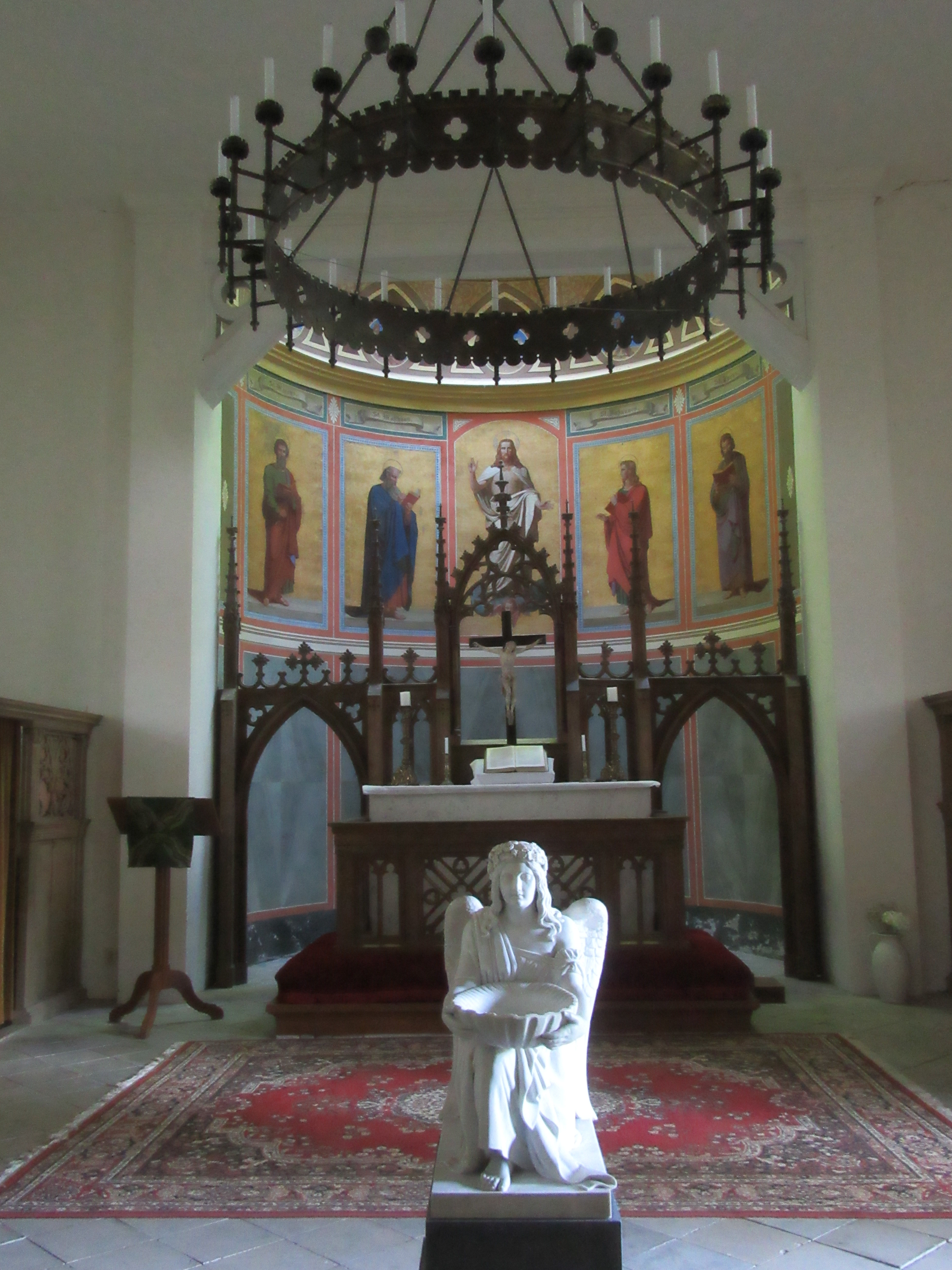 Inneres der Kirche von Groß Markow